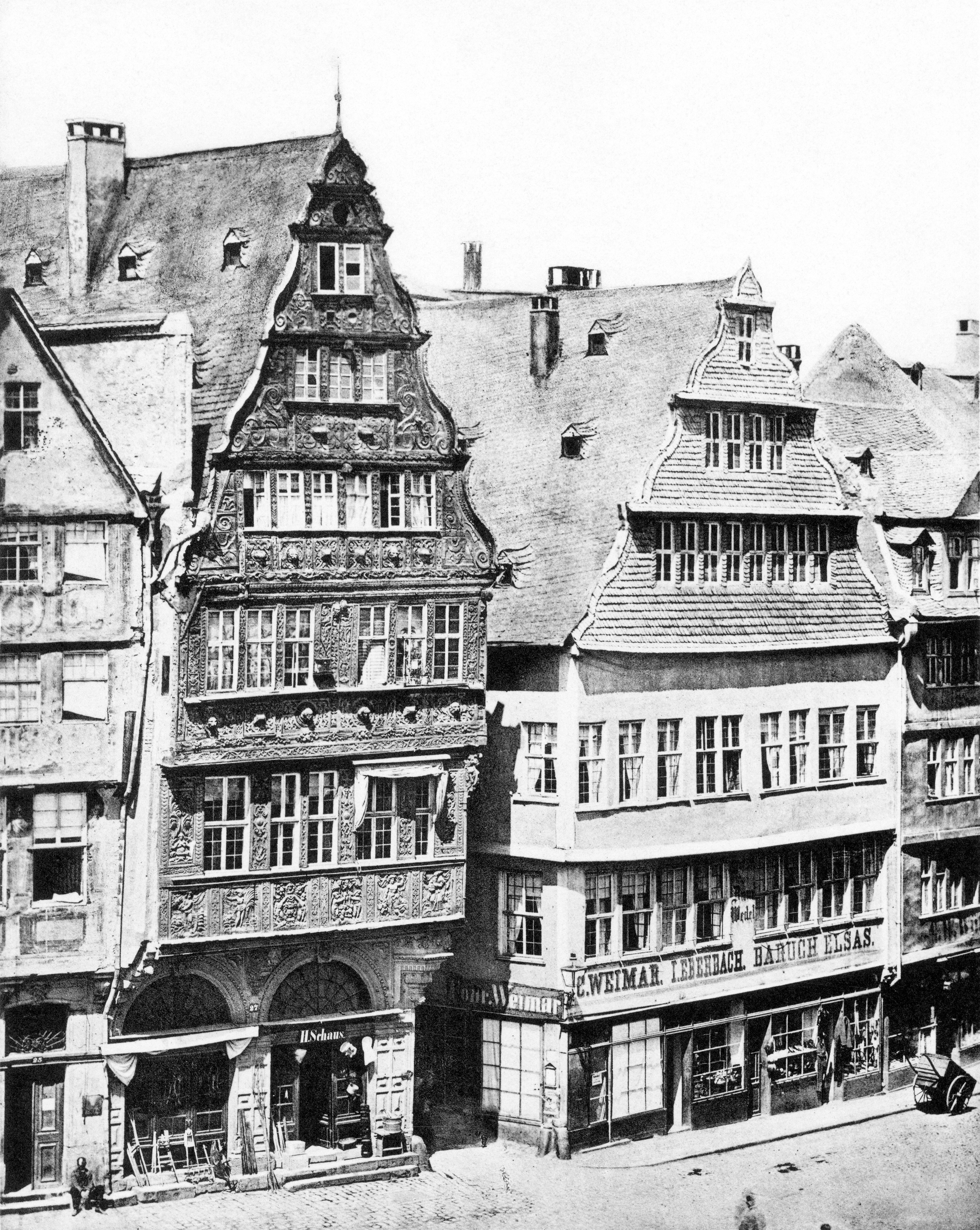 Issue 24, Table 277 / Title on the table: Haus zum Wedel (House to the Frond); now Wedelgasse (Frond Lane). / Original description: [Translation follows]